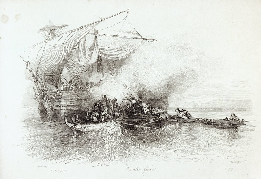 Greek pirates by Decamp